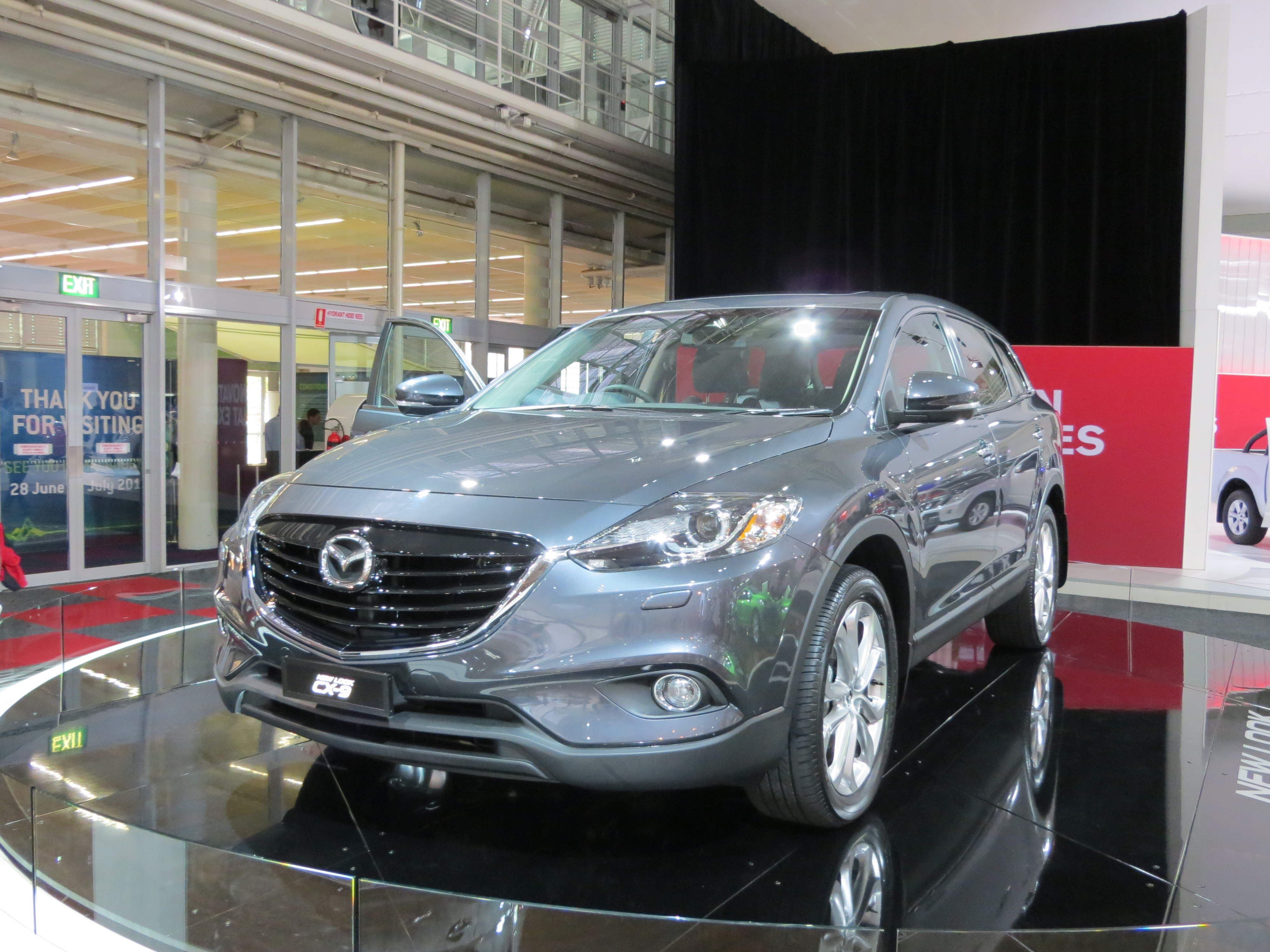 2012 Mazda CX-9 (TB Series 5) Grand Touring wagon. Photographed at the 2012 Australian International Motor Show, Sydney, New South Wales, Australia.